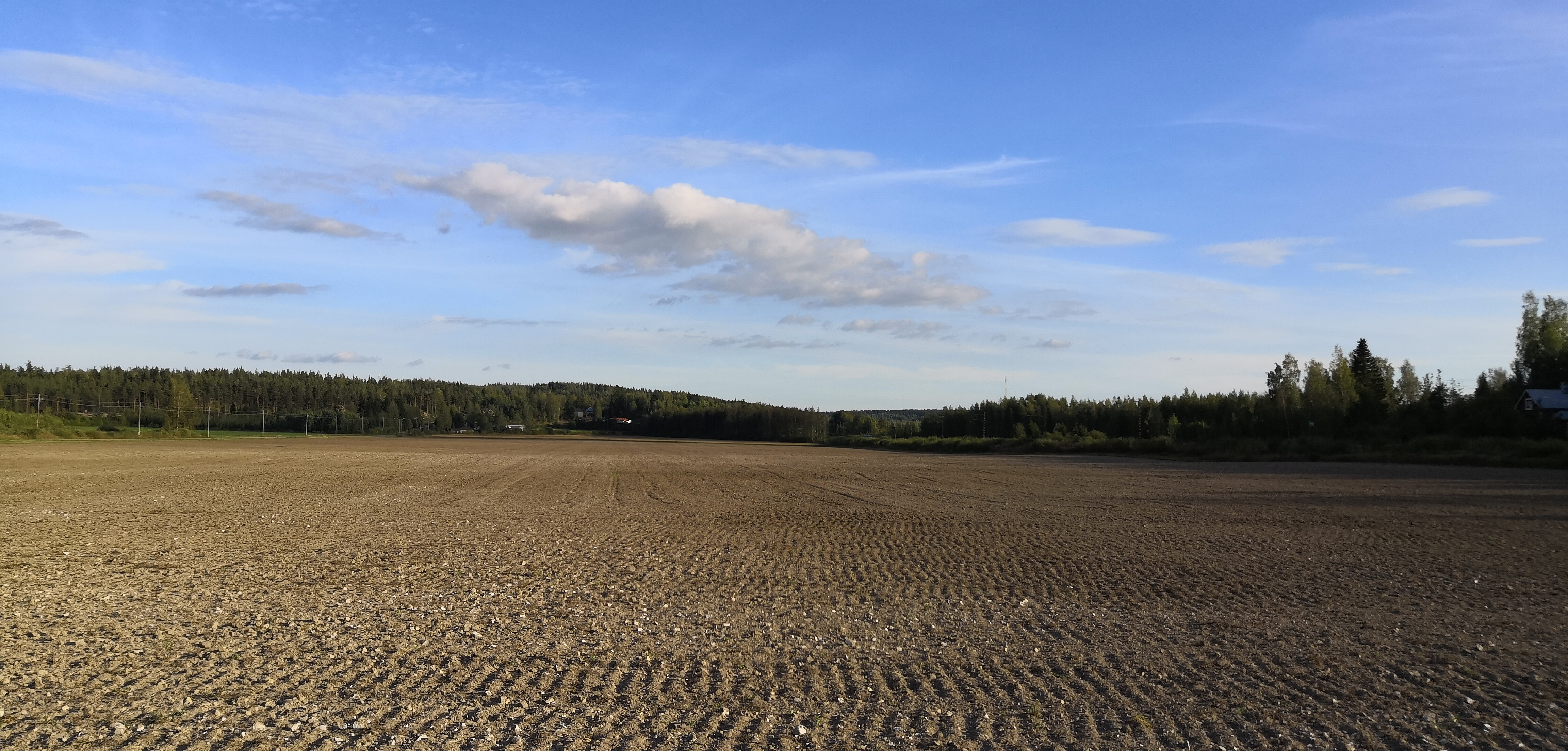 Peltomaisemaa Valkealan Miehossa elokuussa 2019